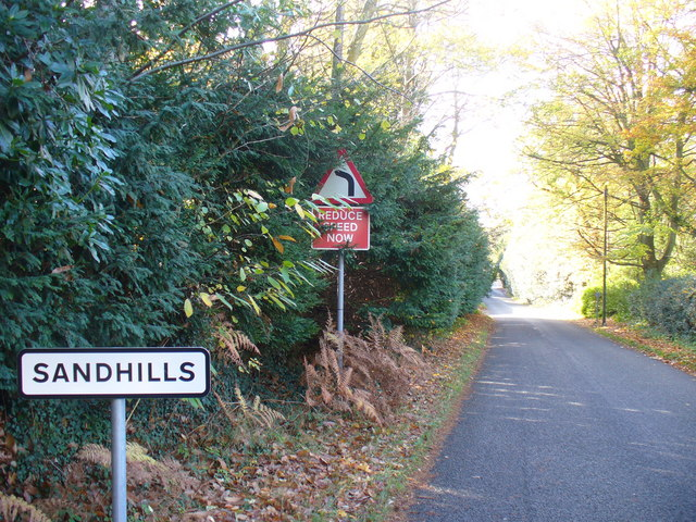 Entering Sandhills This is almost certainly a geographically-derived placename - the hamlet is located on the Greensand Ridge west of Wormley. Looking westwards along Brook Road.